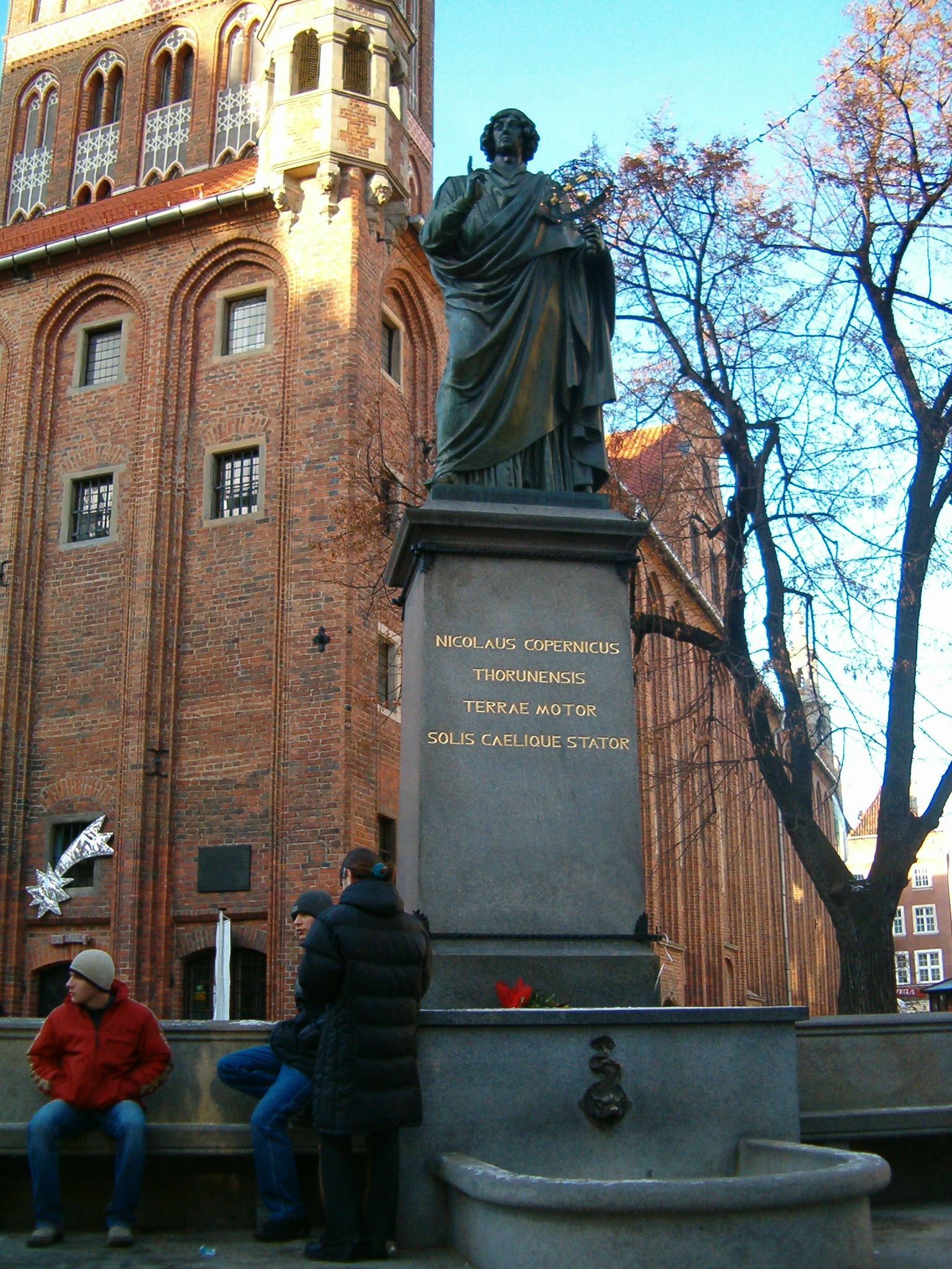 Toruń, Nicolaus Copernicus monument, titled Nicolaus Copernicus Thorunensis, terrae motor, solis caelique stator, Sculptor: Christian Friedrich Tieck